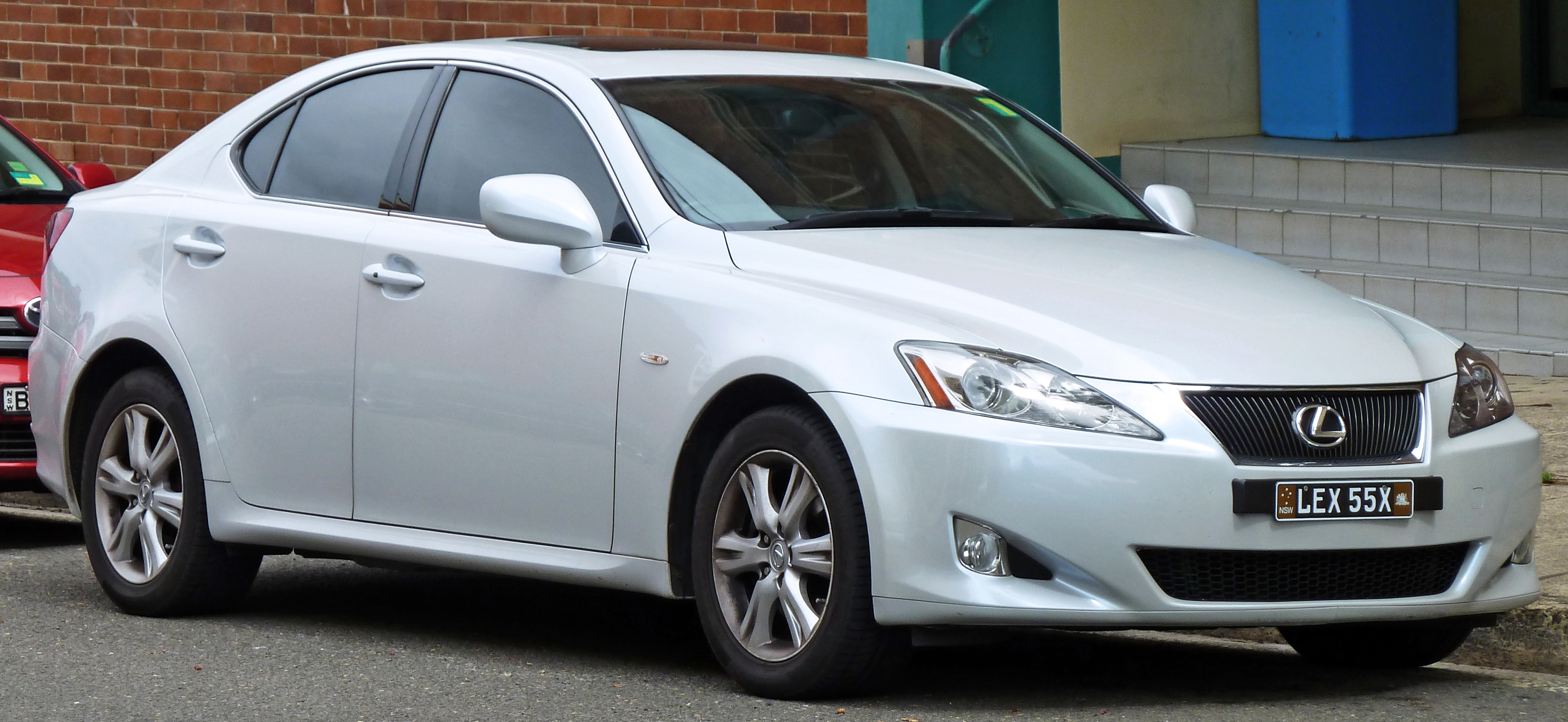 2005–2008 Lexus IS 250 (GSE20R) sedan. Photographed in Kogarah, New South Wales, Australia.